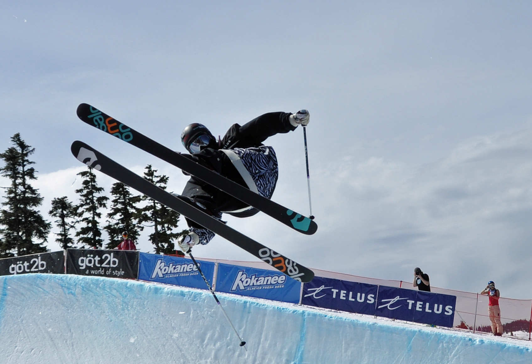 World Skiing Invitational Halfpipe qualifications